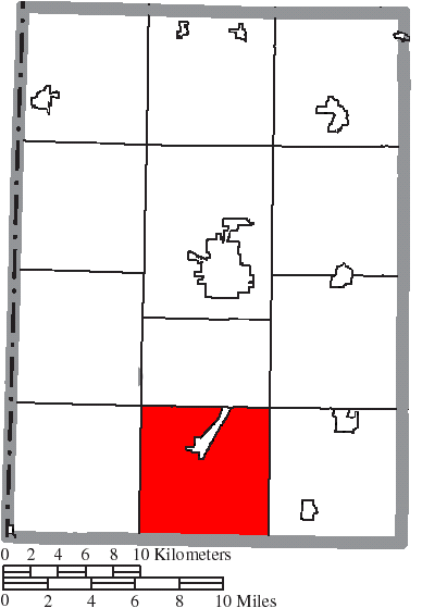 Map of the municipal and township boundaries of Preble County, Ohio, United States, as of the 2000 census, with the location of Somers Township highlighted. Township borders are shown only in unincorporated areas in order to differentiate incorporated and unincorporated areas more clearly.